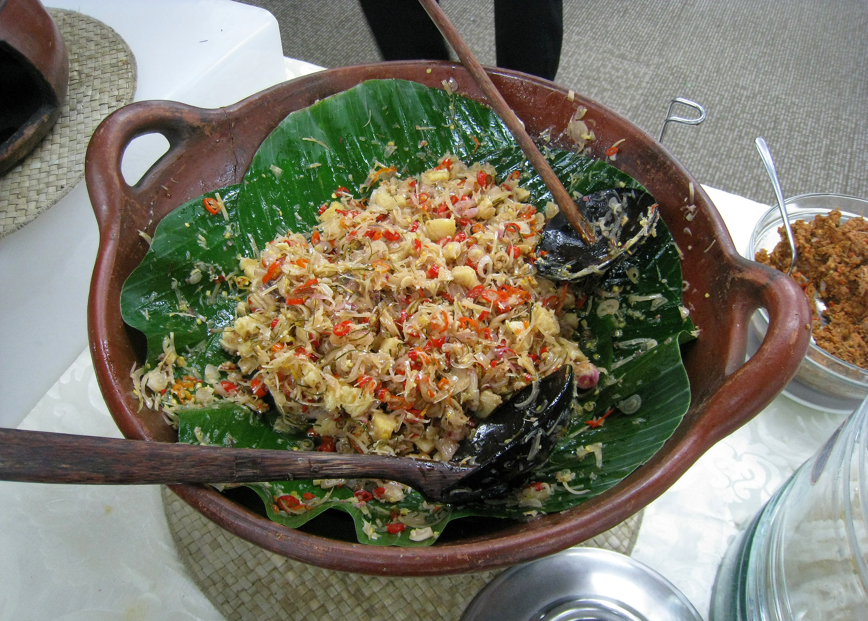 Sambal Matah, a spicy chili, shallot, and spices condiment of Balinese origin. Served in a prasmanan buffet in a party in Jakarta, Indonesia.